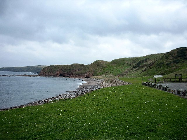 Aberdour Bay, near New Aberdour, Aberdeenshire, looking east